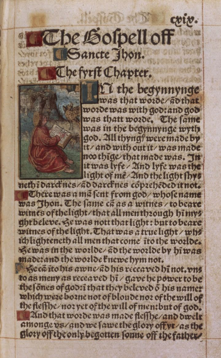 First page of the Gospel of Saint John, from the 1526 Peter Schöffer printing of William Tyndale's English translation of the Bible.